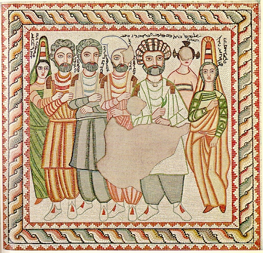 Funerary moasic of the family of Moqimu with names written in Syriac, 3rd century AD, found in Edessa (now destroyed).